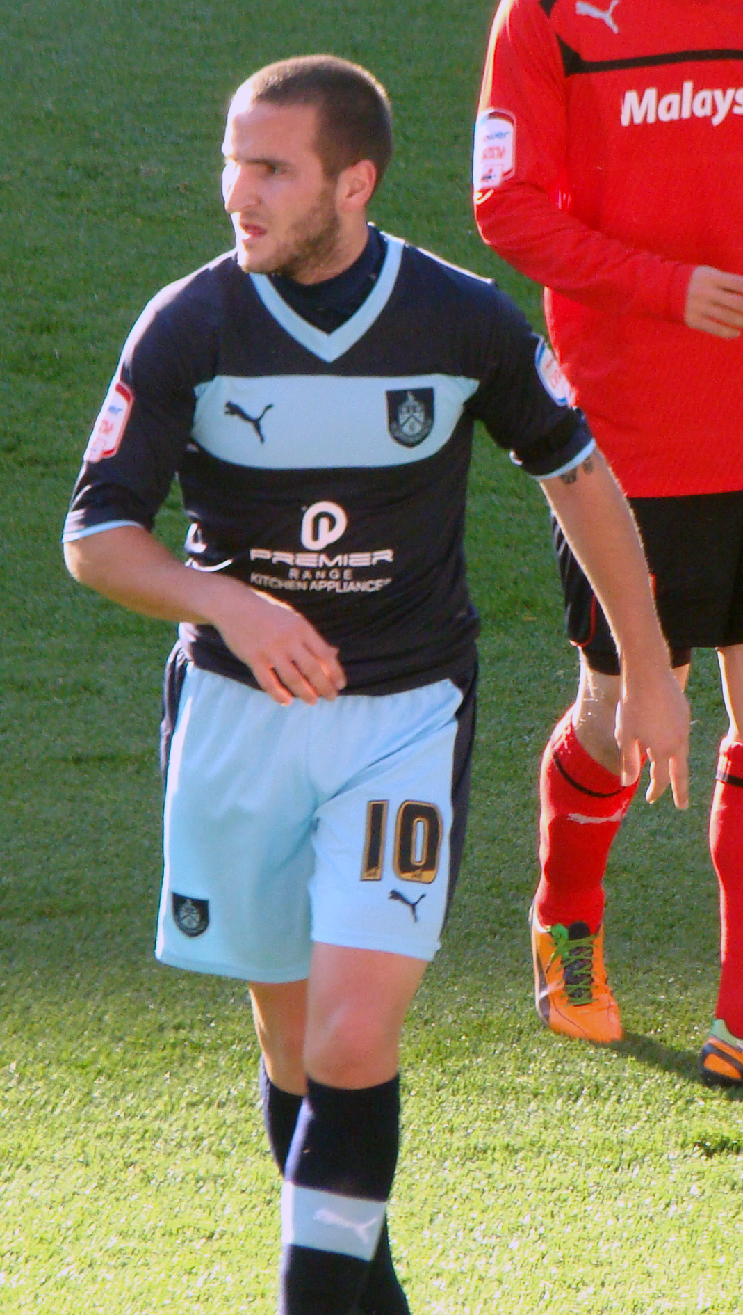 Martin Paterson. Image cropped from original at flickr.